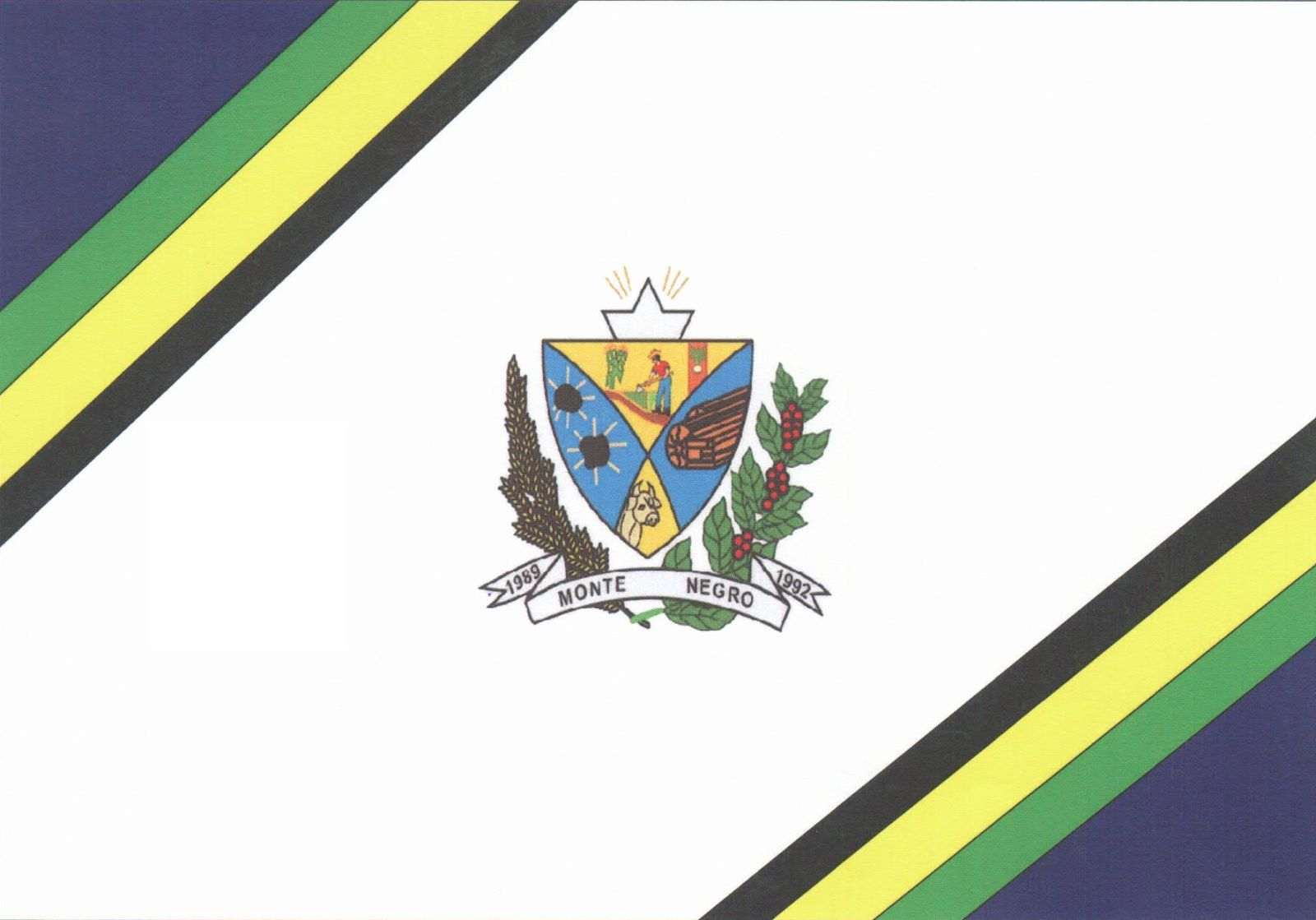 Flag of the city of Monte Negro, Rondônia, Brazil.